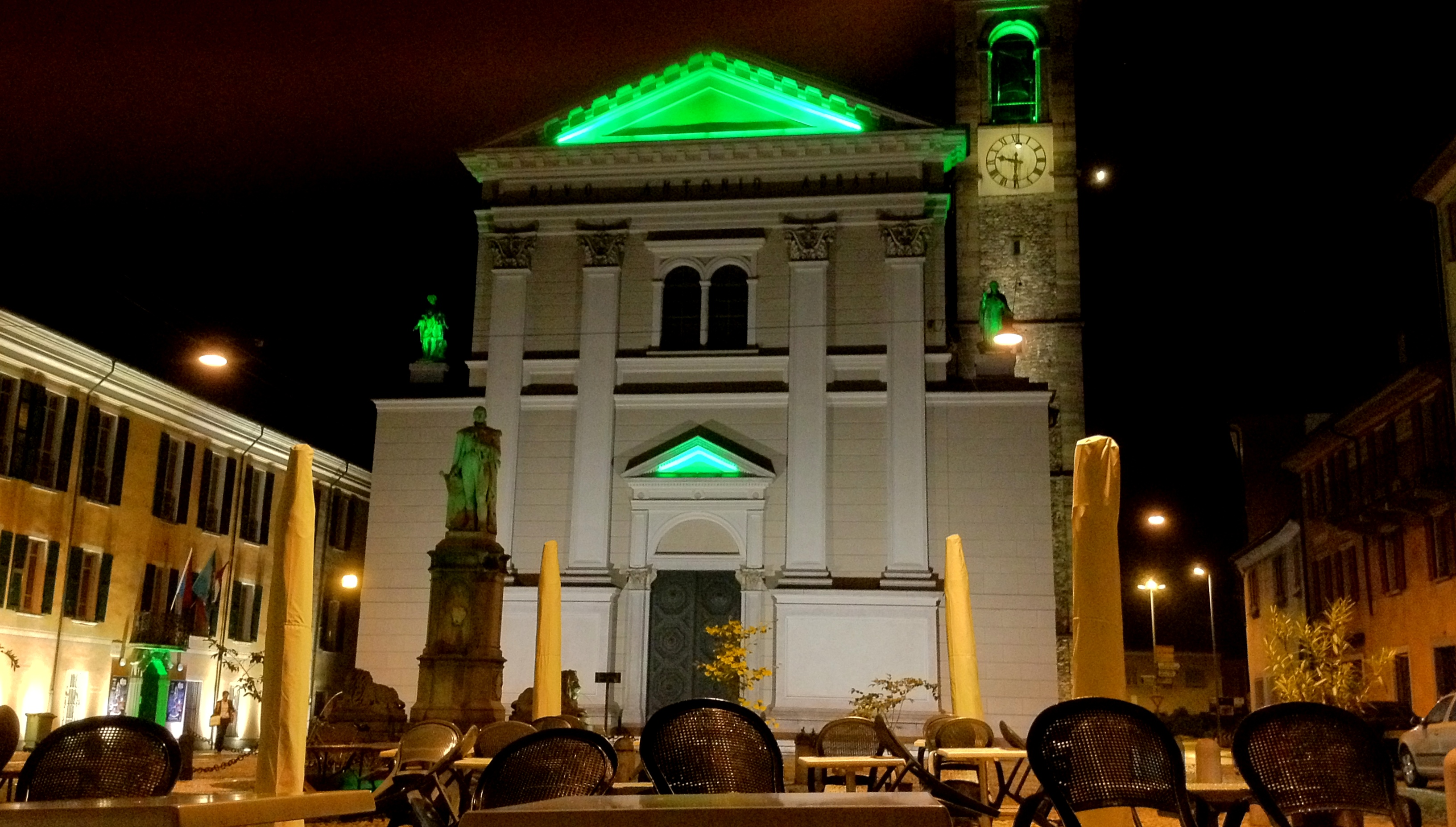 Saint Antonio Church in Locarno